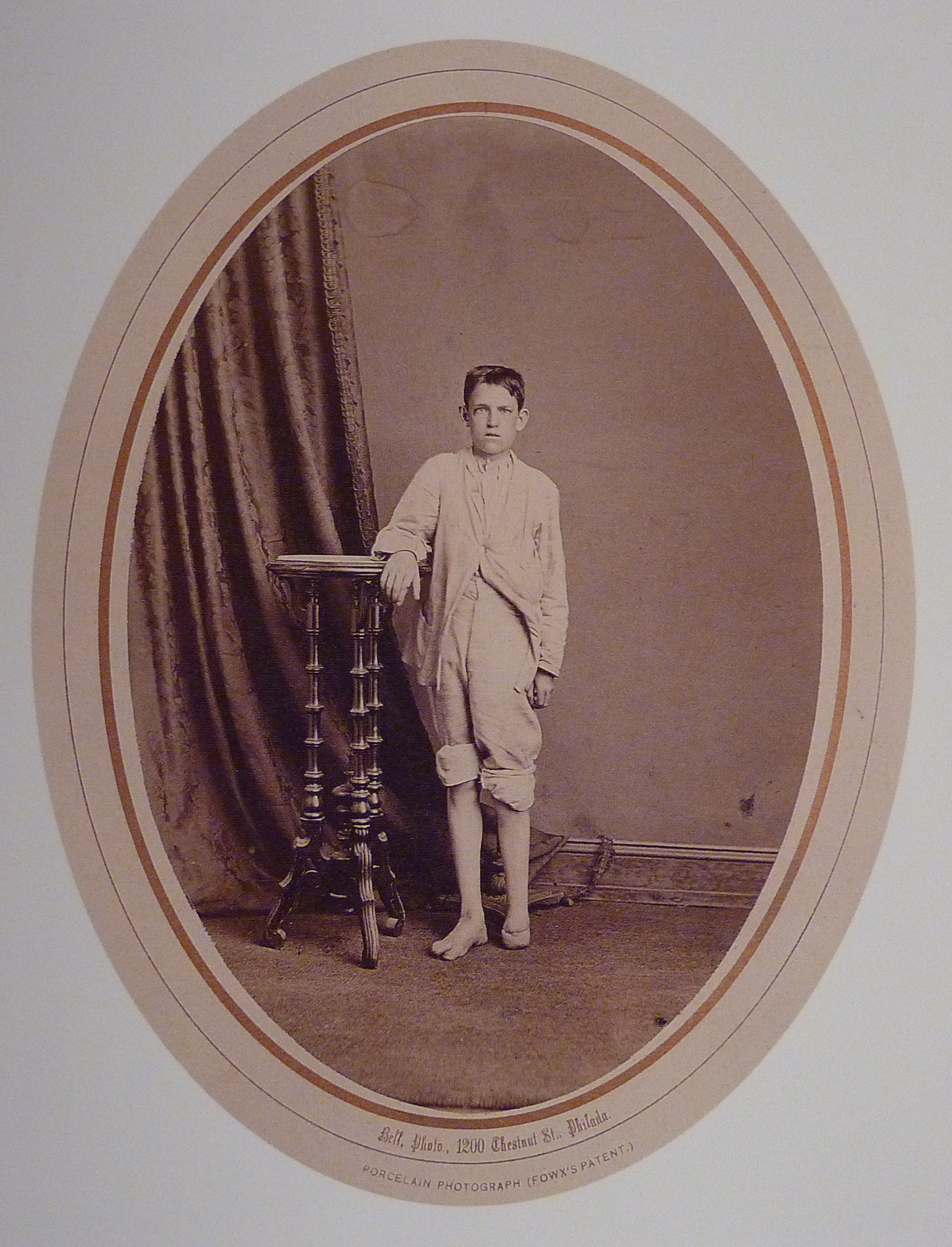 Pirogov amputation, performed by Thomas George Morton (1835-1903)